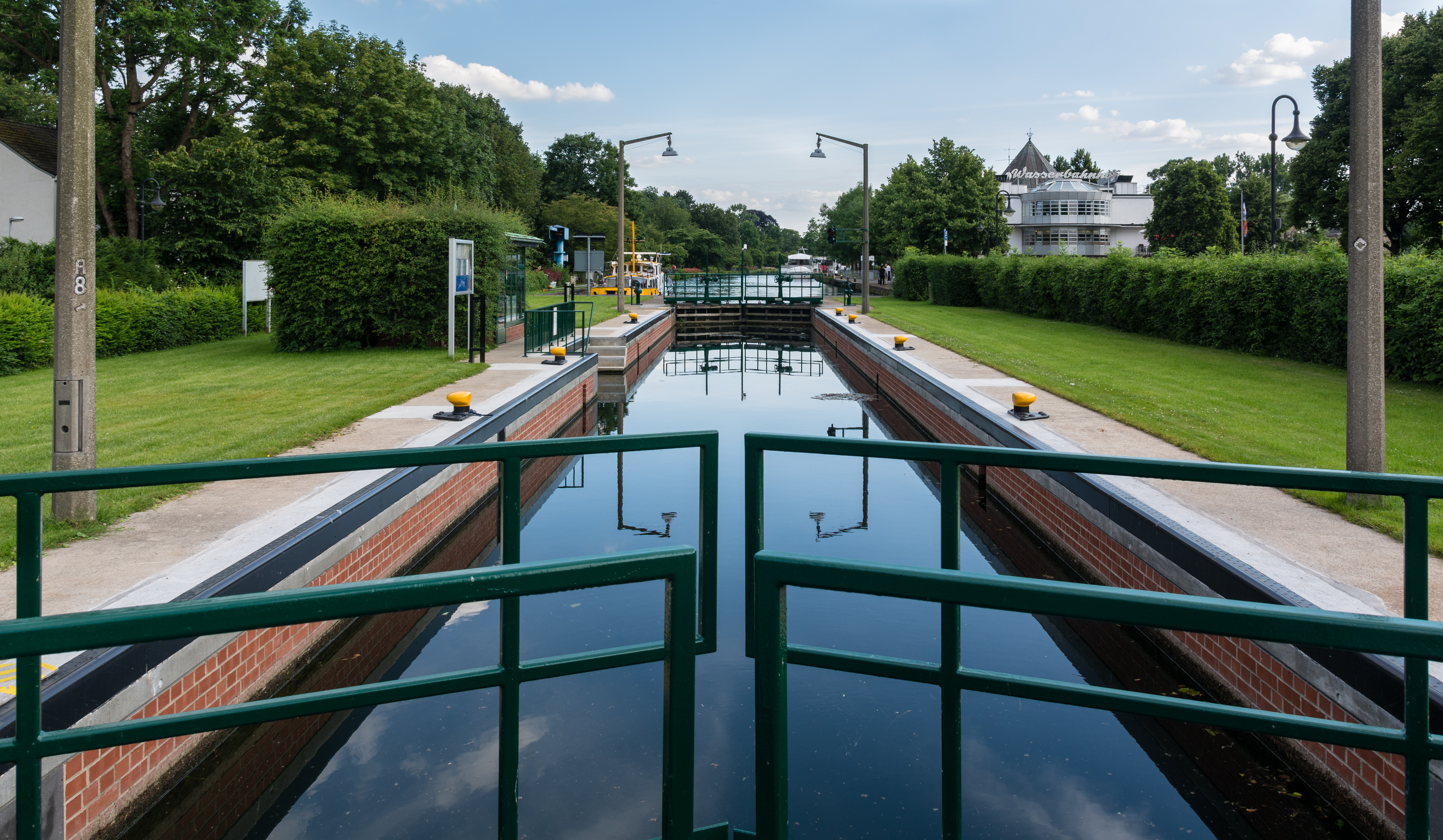 Watergate at the river Ruhr in Mülheim